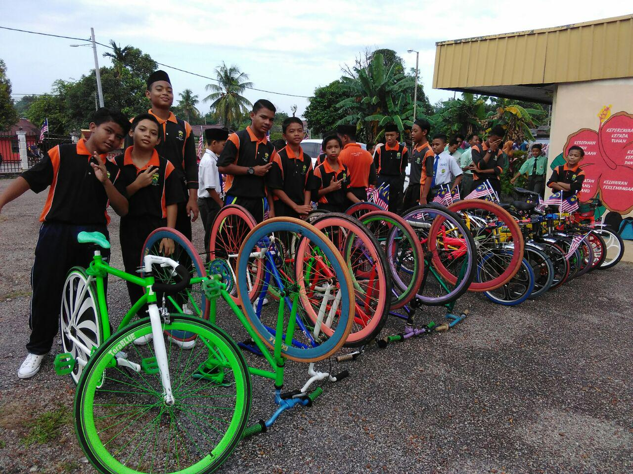 Program basikal